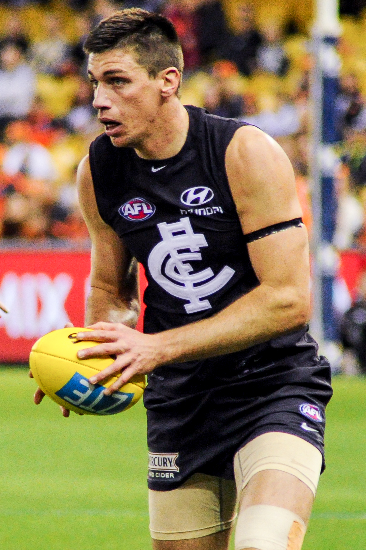 Matthew Kreuzer during the AFL round twelve match between Carlton and Greater Western Sydney on 11 June 2017 at Etihad Stadium in Melbourne, Victoria.